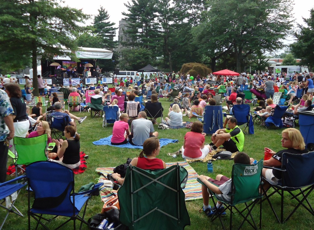 Outdoor concert sponsored by the City of Summit.